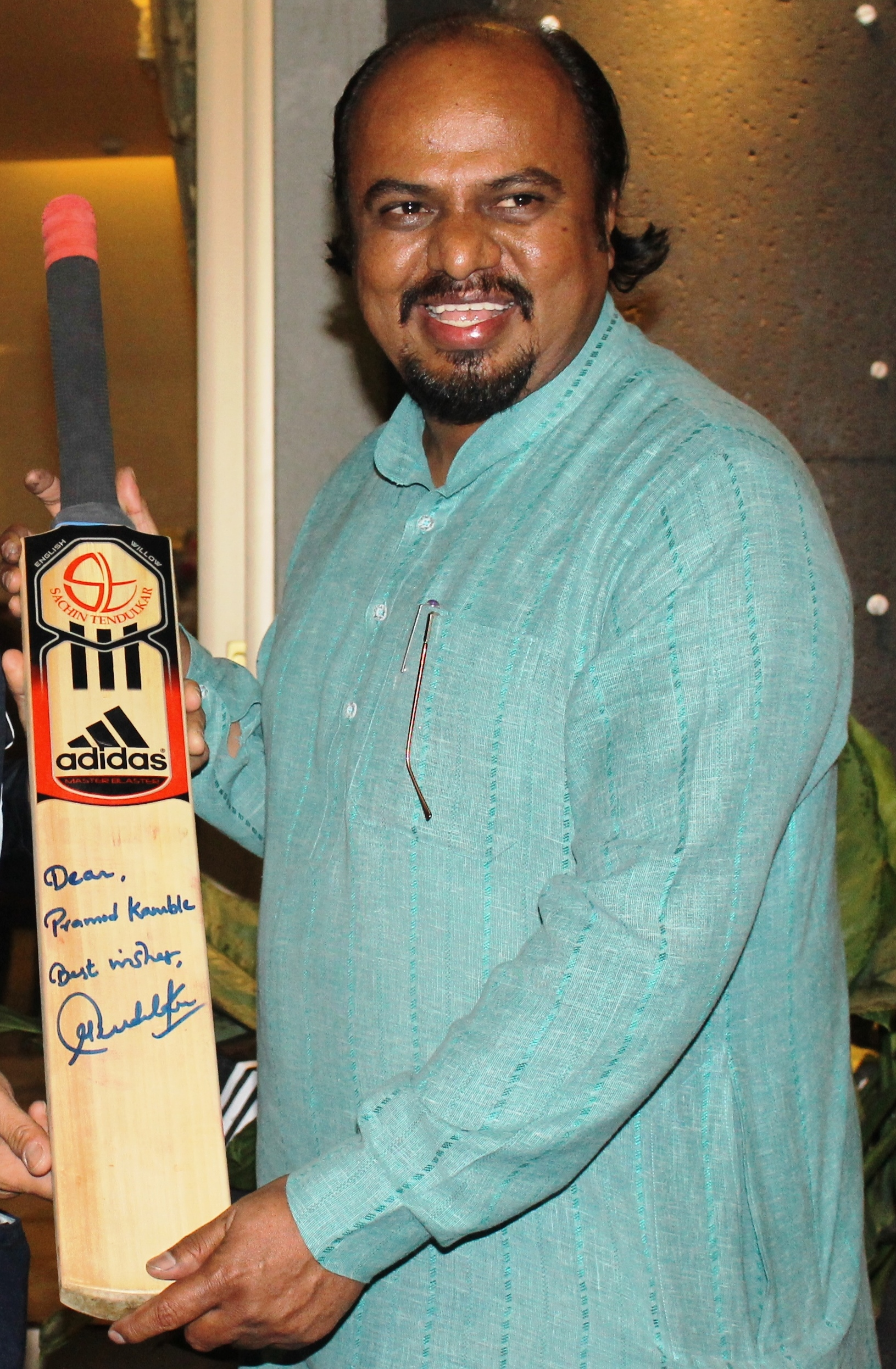 Sachin Tendulkar offered the signed bat to Pramod Kamble